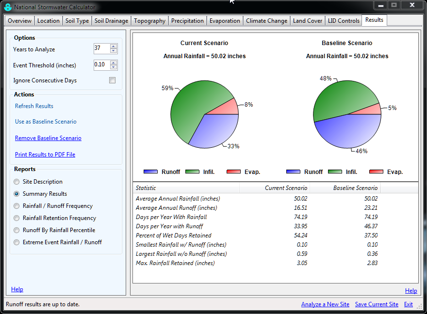 A screen capture of the EPA Stormwater Calculator made by myself after downloading the software from the EPA. My wikilink is